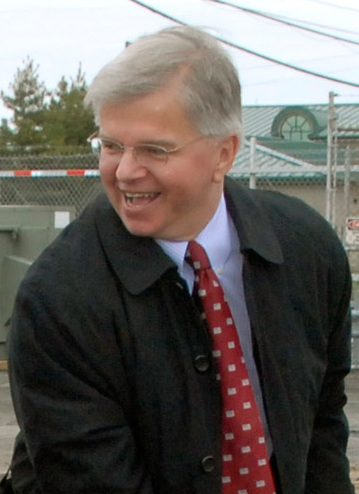 Westhampton Beach, NY - Michael Jacobs, chairman of the Board of the Friends of the 106th, Col. Michael F. Canders of the 106th Rescue Wing, Congressman Timothy Bishop, New York State Assemblyman Fred Thiele, Maj. John D. McElroy of the 103rd Rescue Squadron, and Keith Wood, supervisor for Racanelli Construction, break ground for a new building to house the 103rd Rescue Squadron at F.S. Gabreski Air National Guard Base in Westhampton Beach, N.Y., on May 2, 2009.